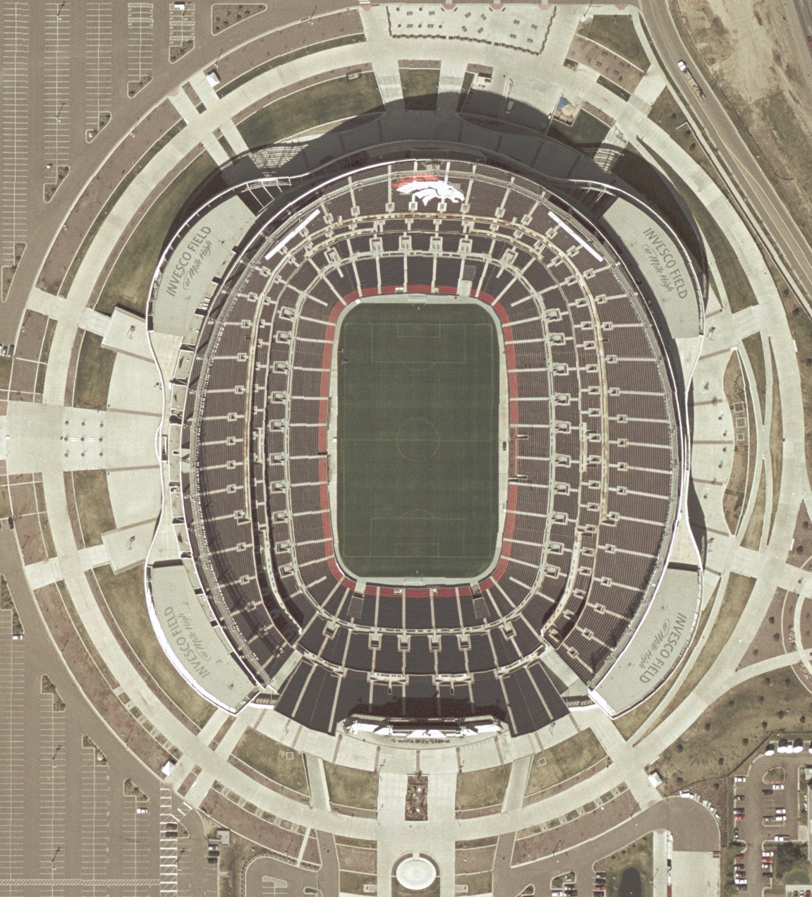 Invesco Field at Mile High satellite view in April 2004.